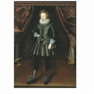 Dudley, Third Baron North (1581-1666) Painting: Oil painted portraits of noble or wealthy men and women became increasingly common in the 17th century. Important as it was to dress magnificently, it was also essential to be portrayed in one's finery. The portraits nearly always show the sitters splendidly dressed in the height of expensive fashion, in order to emphasise their status. Subject: Dudley North (1581-1666) was one of the principal courtiers of James I. His family was linked by marriage with the Dudley family that had been so powerful at the Tudor court. Robert Dudley, Earl of Leicester, was a favourite of Elizabeth I and Dudley North's grandfather married the widow of his brother, Sir Henry Dudley. Dudley North became one of the most conspicuous figures of the Jacobean court. He was a musician and poet, and an enthusiastic participant in court entertainments, especially the tilts and masques. In 1606, while recovering from ill health in Kent, he discovered the medicinal value of the springs at Tunbridge Wells. He also publicised the virtues of the waters of Epsom in Surrey. He passed his later years quietly in the country at Kirtling Hall, the family home in Kirtling, Cambridgeshire. In 1645 collected his essays, letters and poems in a volume titled A Forest of Varieties.